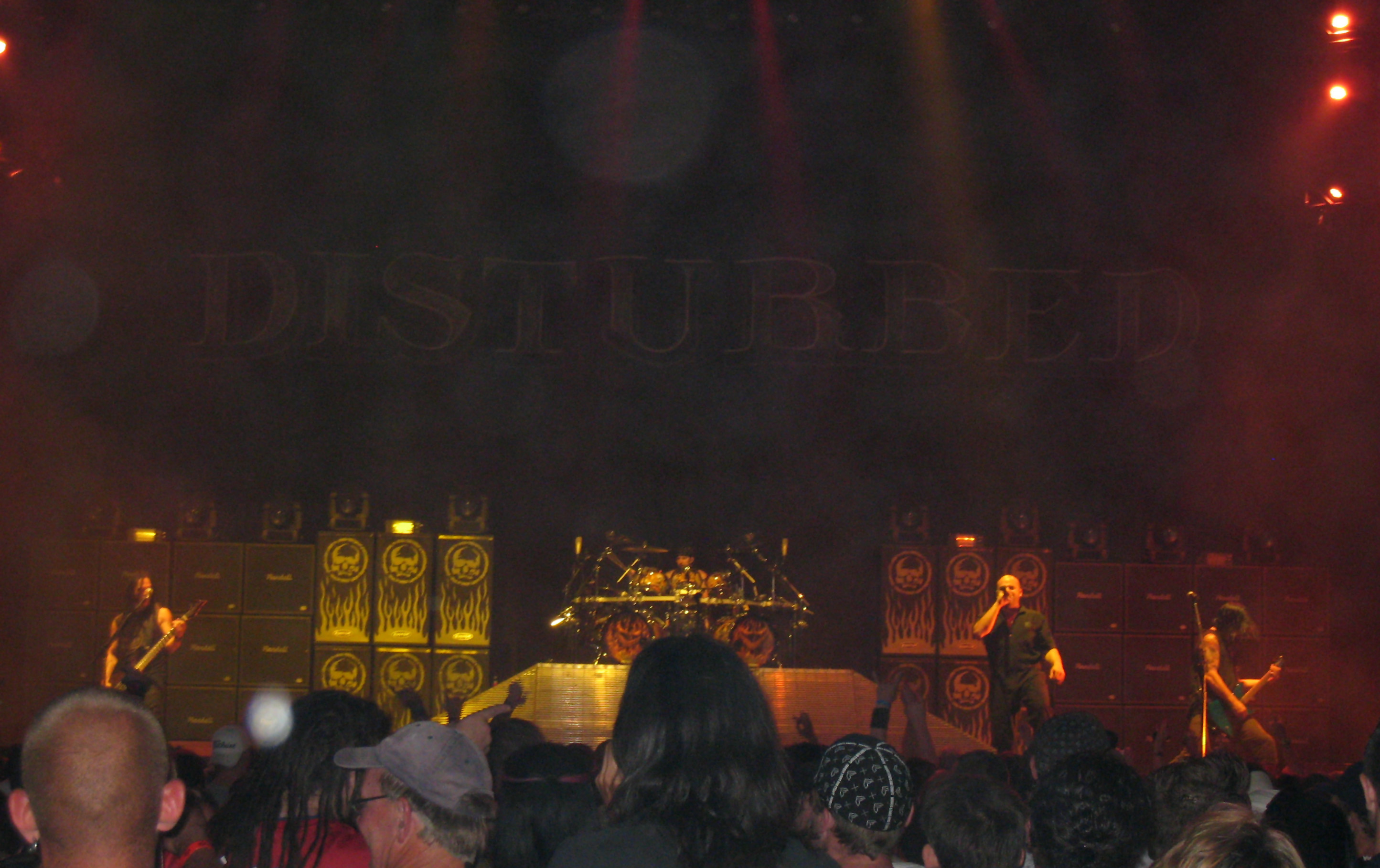 Disturbed performing at the Center as part of "Mayhem Fest" in Dallas, Texas on July 25, 2008.